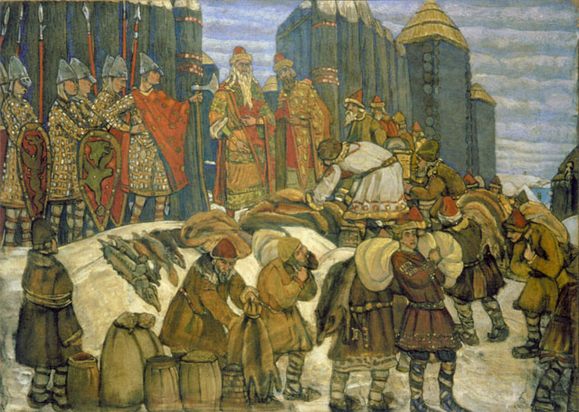 A Russian prince collects tribute. Moscou, Russie.